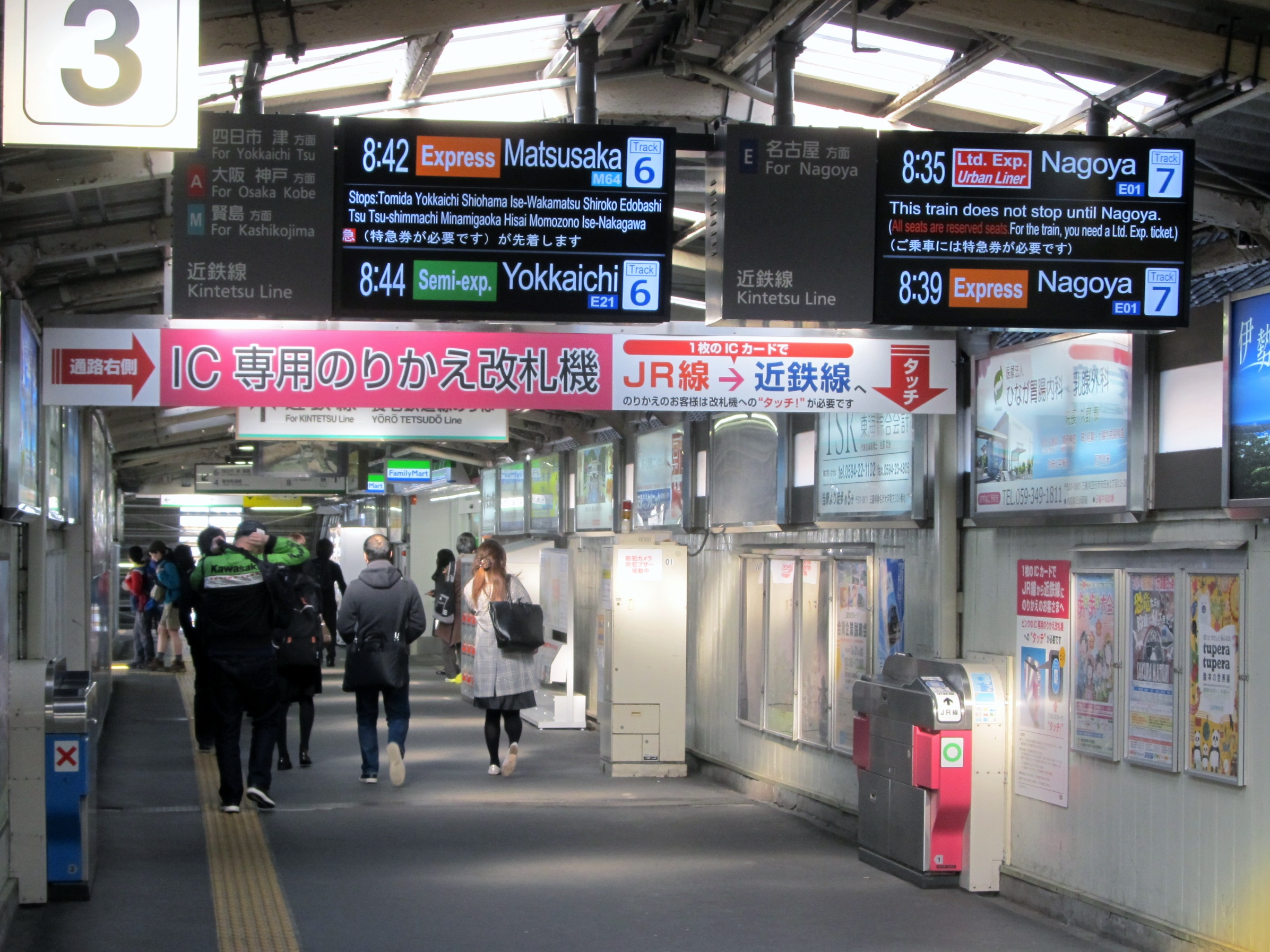 Kuwana Station Overpass